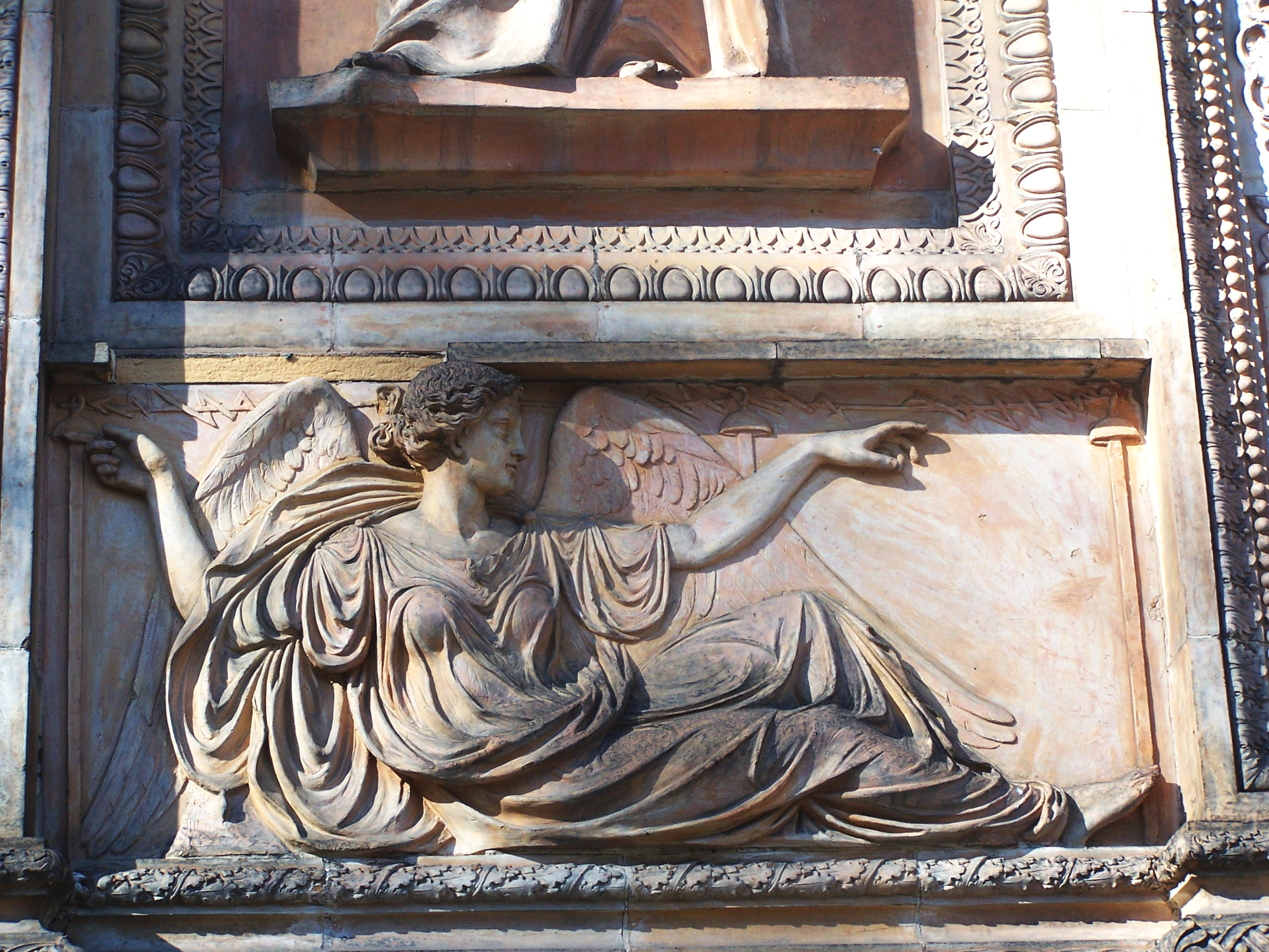 Triumphal Gate at the Mühlenberg, left side, antique-style relief illustrates Prussian´s technological progress (telegraphy)